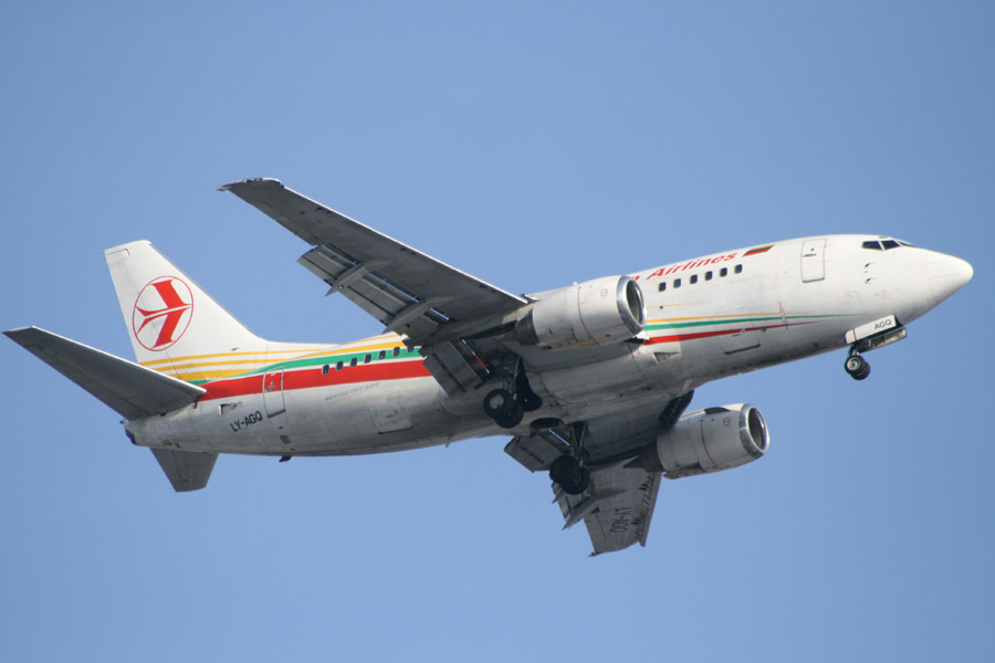 Lithuanian Airlines Boeing 737-500 (reg.No. LY-AGQ) landing at Vilnius international airport (VNO)